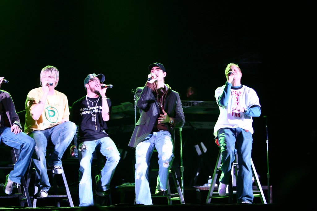 BSB in concert